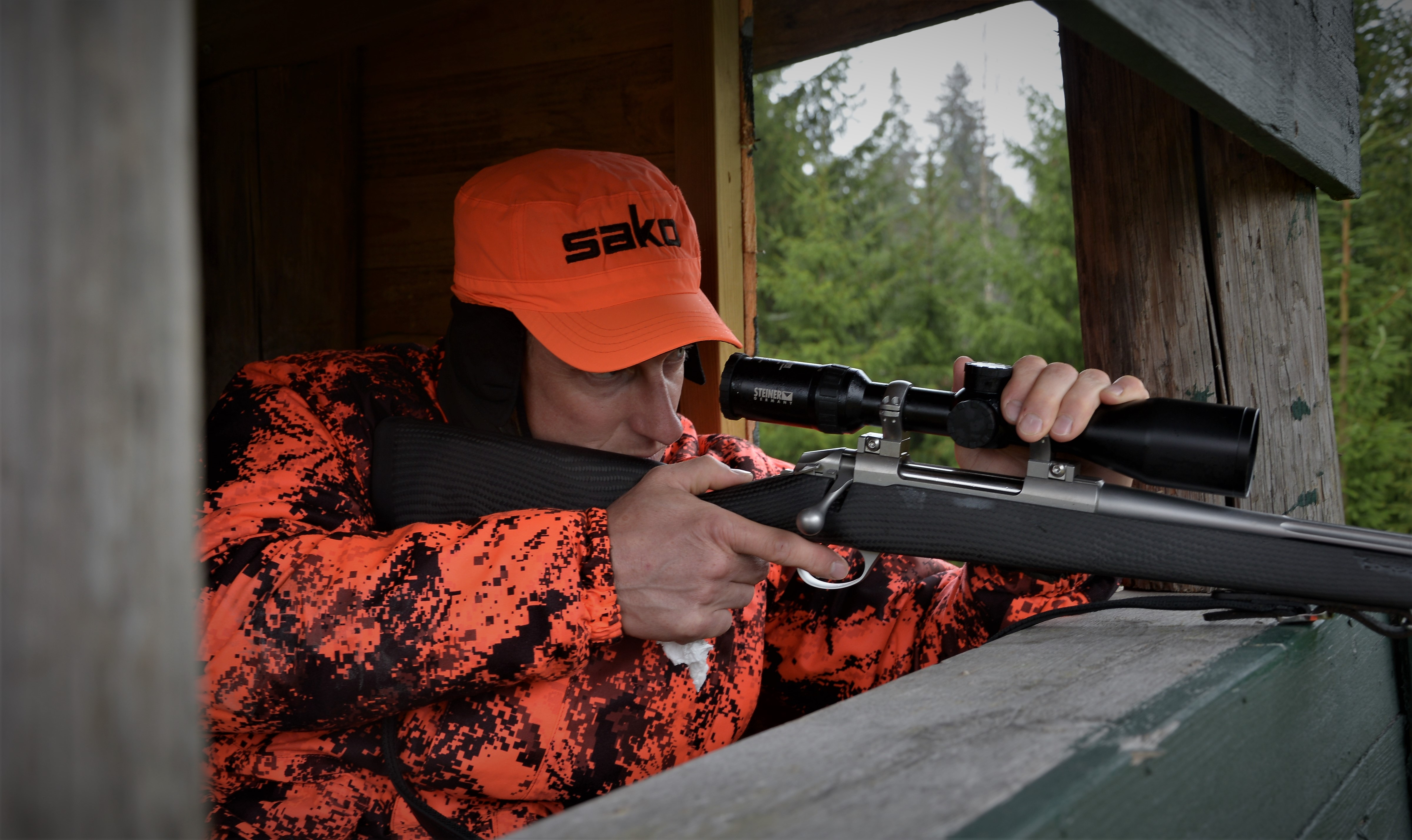 Paul Childerley on a shooting stand hunting for deer in Finland, 2017